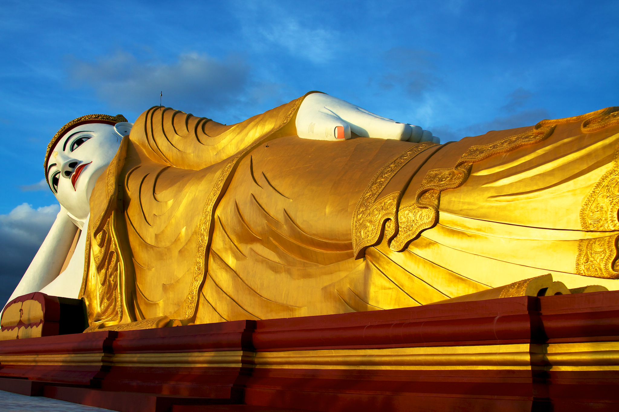 Bodhi Tataung is a new and massive monument complex still being built (as of 2010). The reclining Buddha is 312 ft in length and is also hollow, with dark shrines inside. In the sunset light, the robes glowed in burnished gold